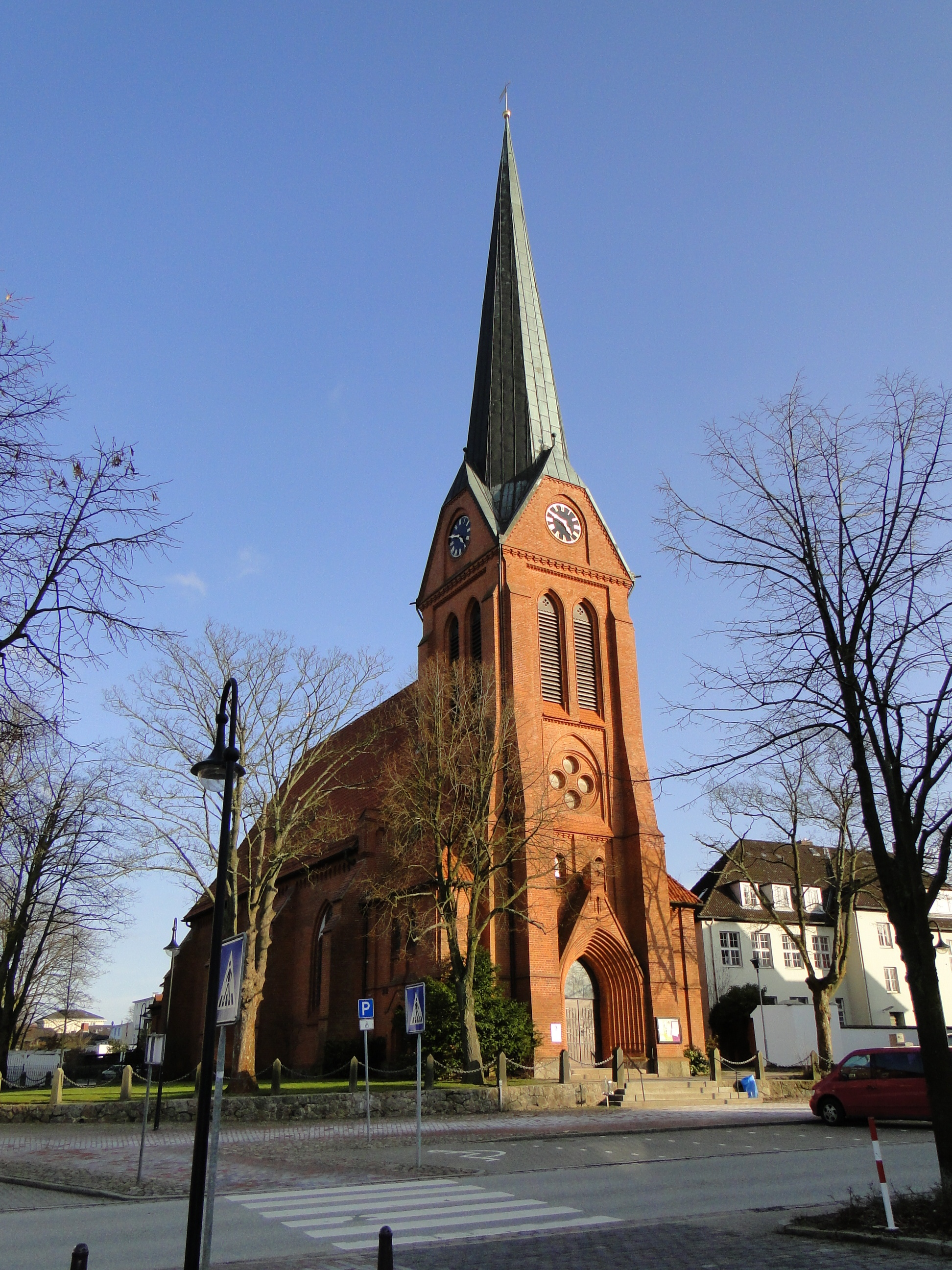 Church St. Franziskus in Schwarzenbek, disctrict Herzogtum Lauenburg, Schleswig-Holstein, Germany